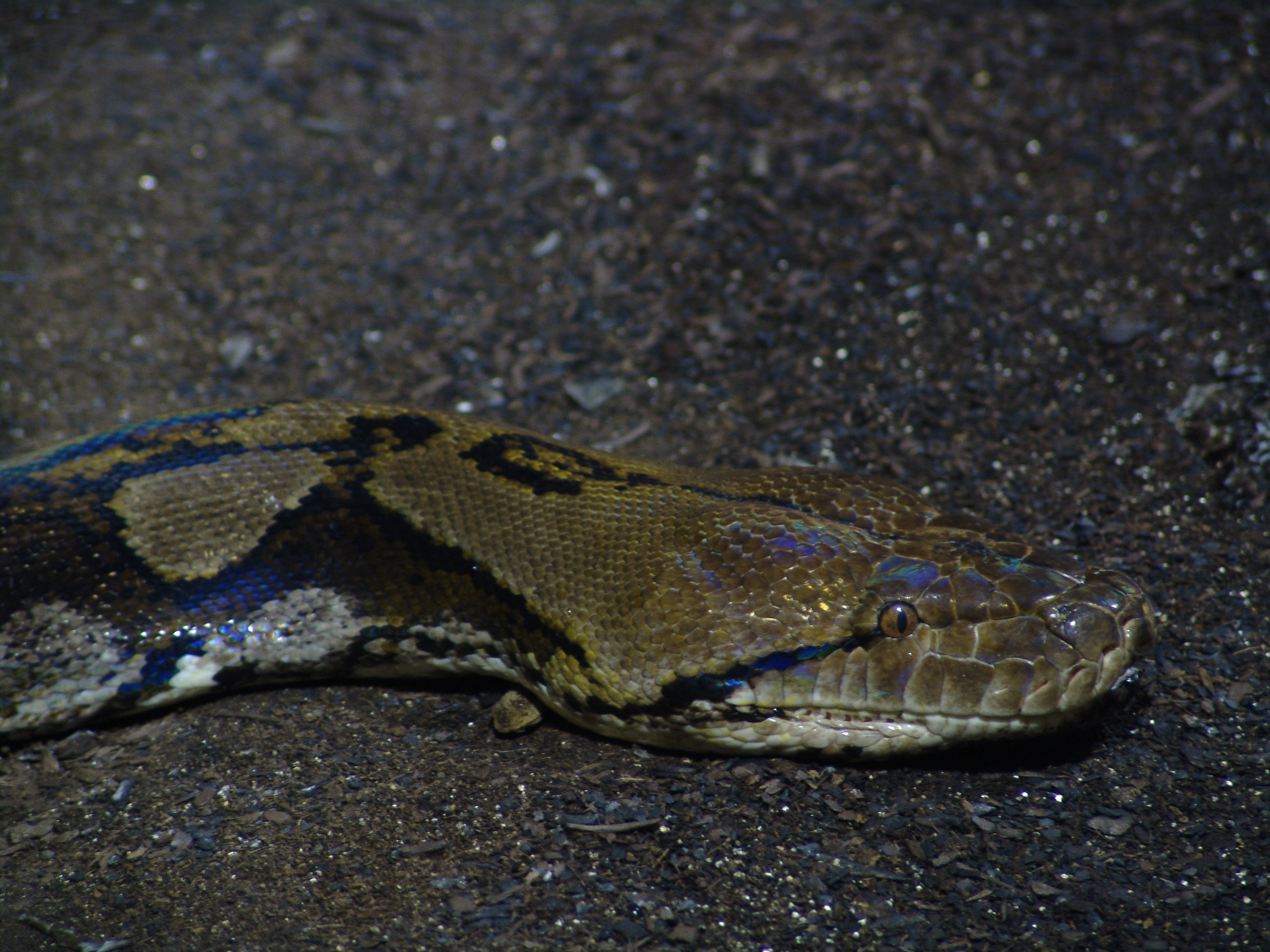 Reticulated Python at Wilmington's Serpentarium. I took the picture.